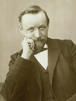 Danish writer